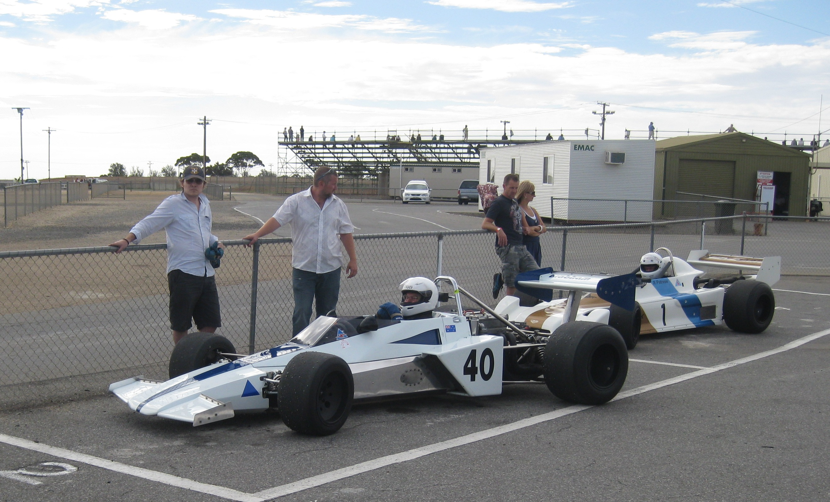 The Brabham BT40 of Tim Kuchel at Mallala Motor Sport Park on 3 April 2010.